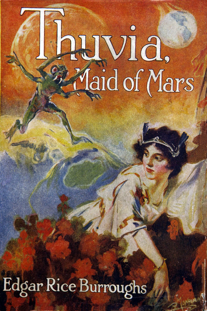 Cover art by P. J. Monahan from Thuvia, Maid of Mars by Edgar Rice Burroughs, McClurg, 1920.